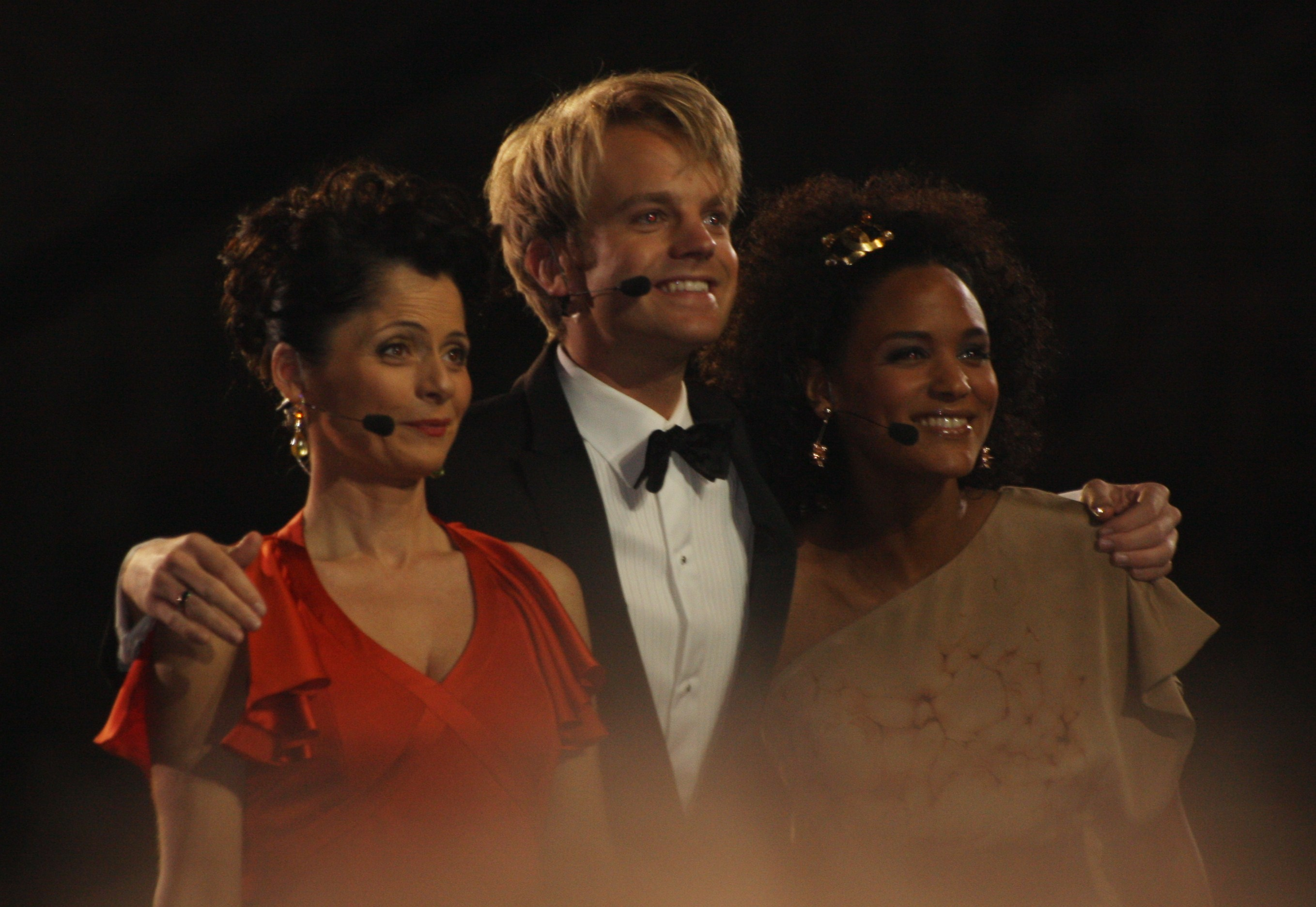 Eurovision Song Contest 2010 hosts, at Telenor Arena (rehersals).